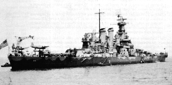 USS North Carolina, 1942. Installation of planes and electronics are complete. Her next sailing will be to the Pacific war zone, where she remained for the rest of the war.